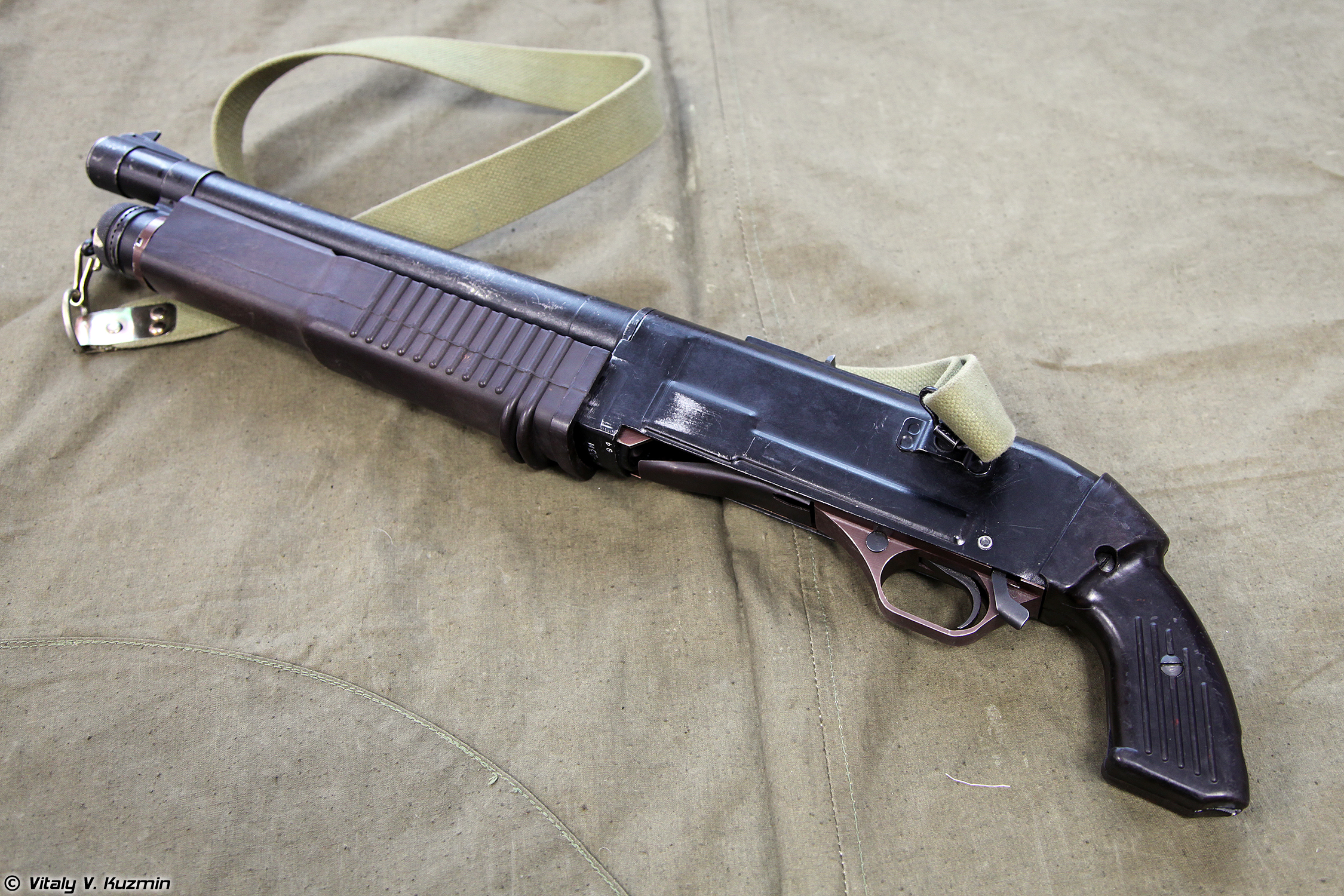 KS-23M left view without buttstock